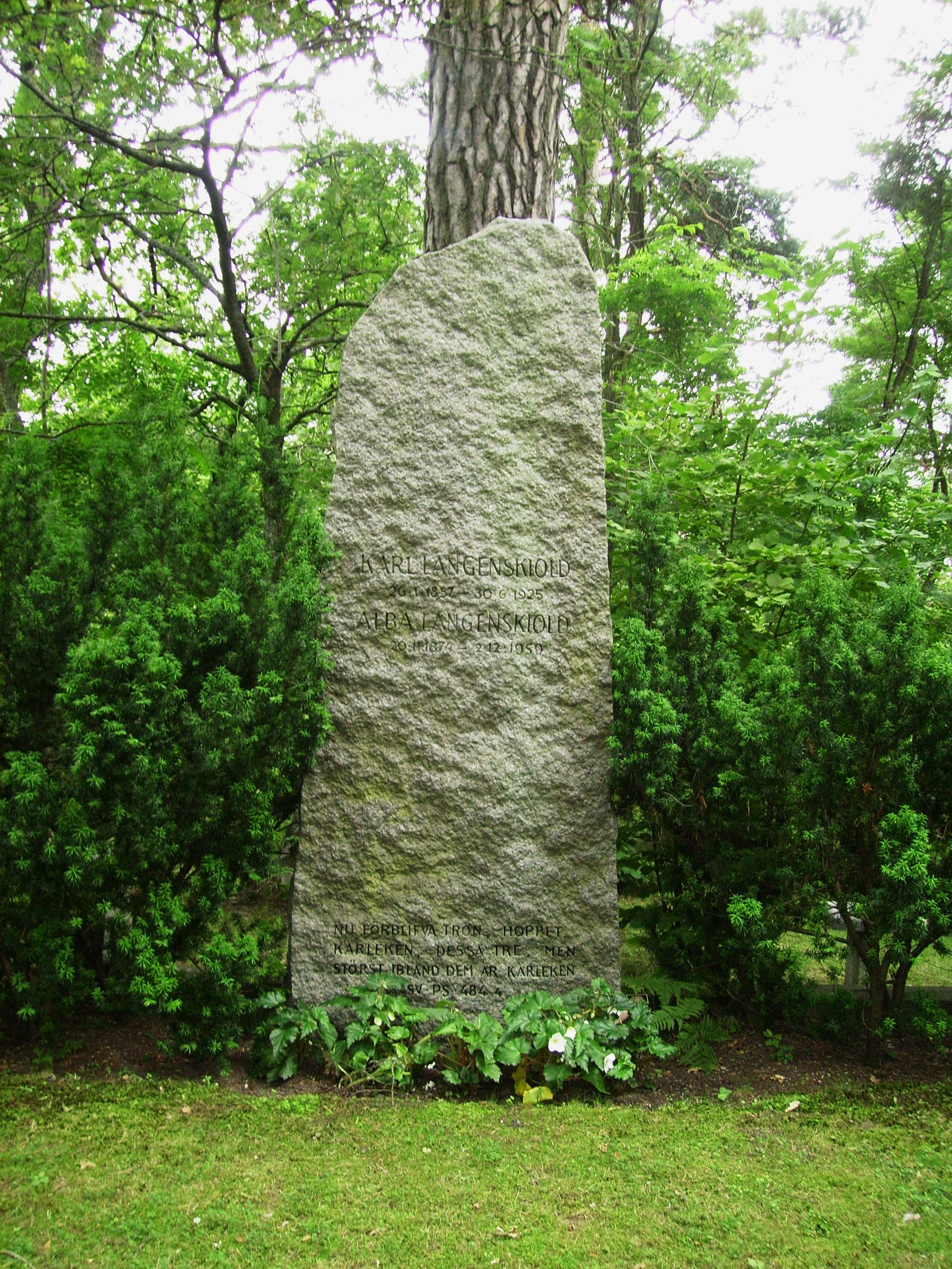 Picture of Karl Langenskiöld's grave at Djursholms burial ground